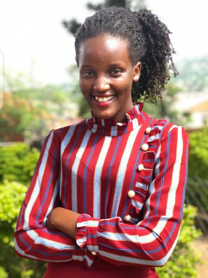 Photograph of Vanessa Nakate is a Ugandan climate justice activist.